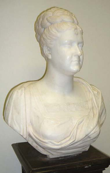 Photo of nineteenth century marble bust of Euphrosyne Parepa-Rosa at the Royal Academy of Music